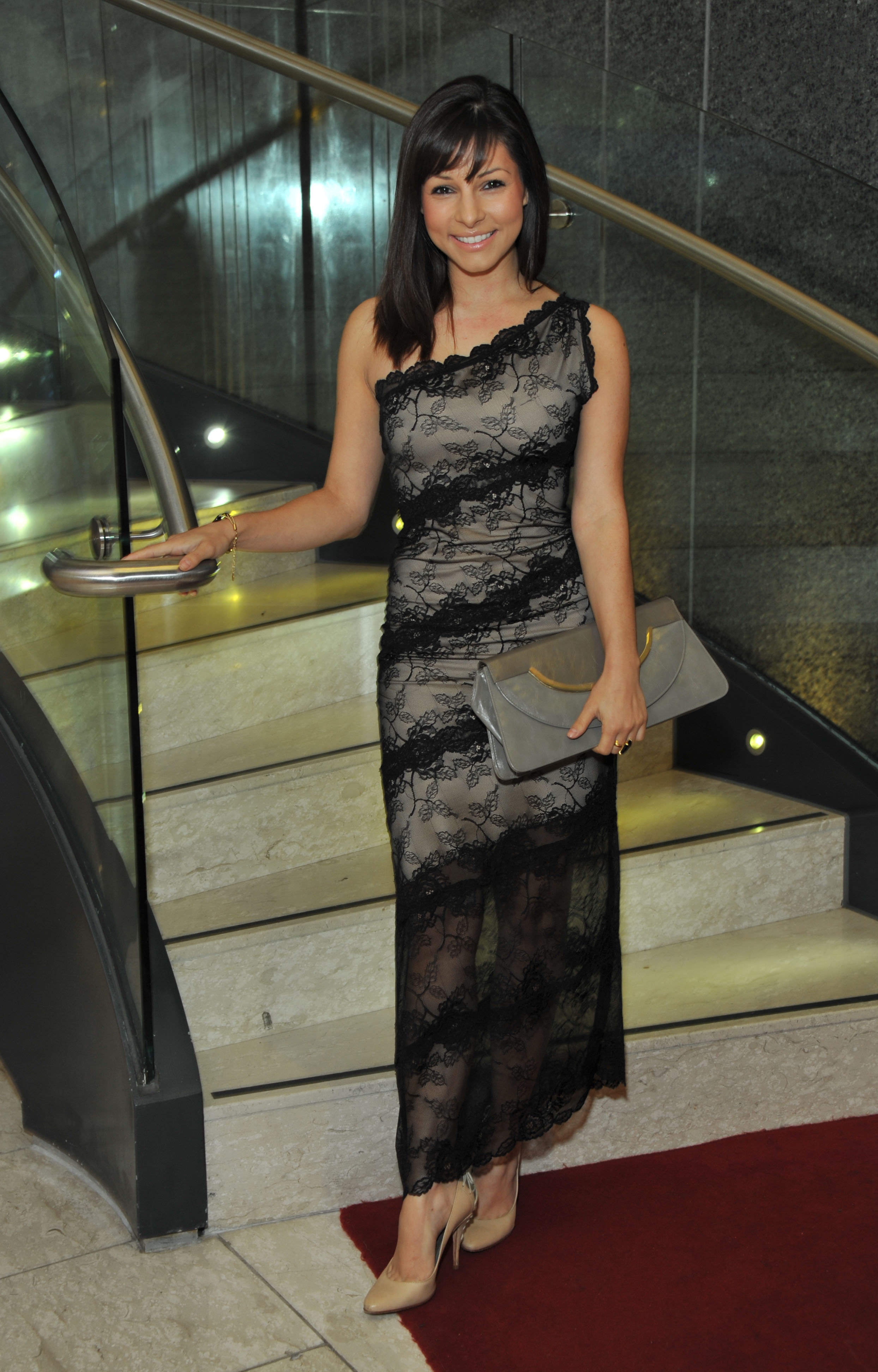 Roxanne at the Star Ball Manchester